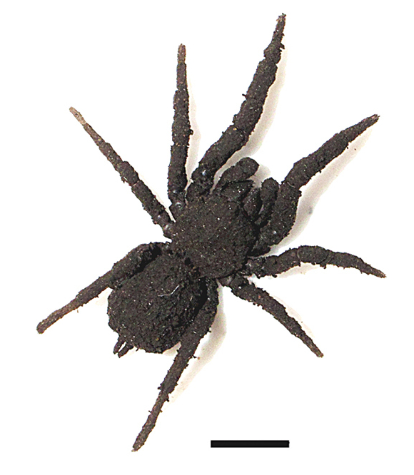 Paratropis tuxtlensis adult female. Scale bar: 6 mm